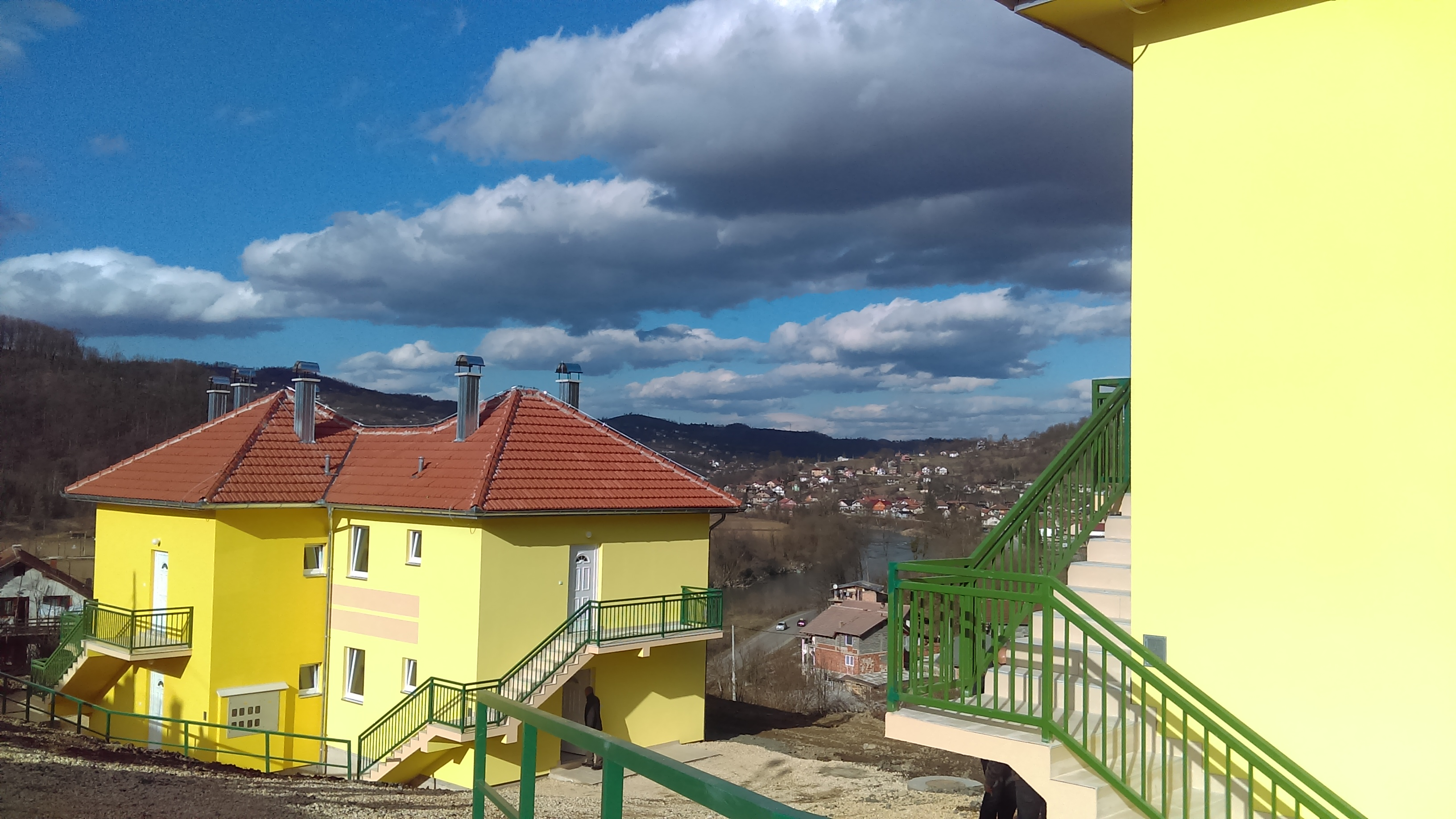 BiH Roma houses at Dolovi, Zavidovici